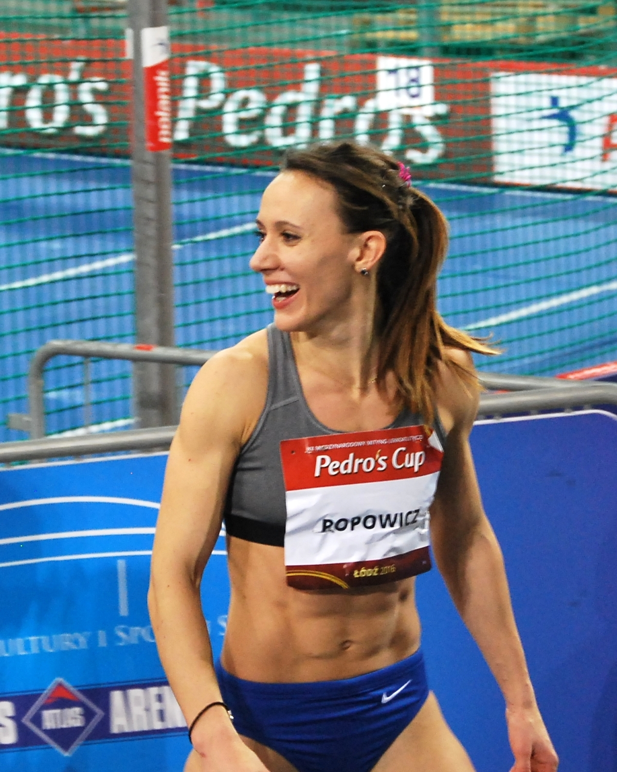 Marika Popowicz, sprinter from Poland, Pedro's Cup Łódź 2016